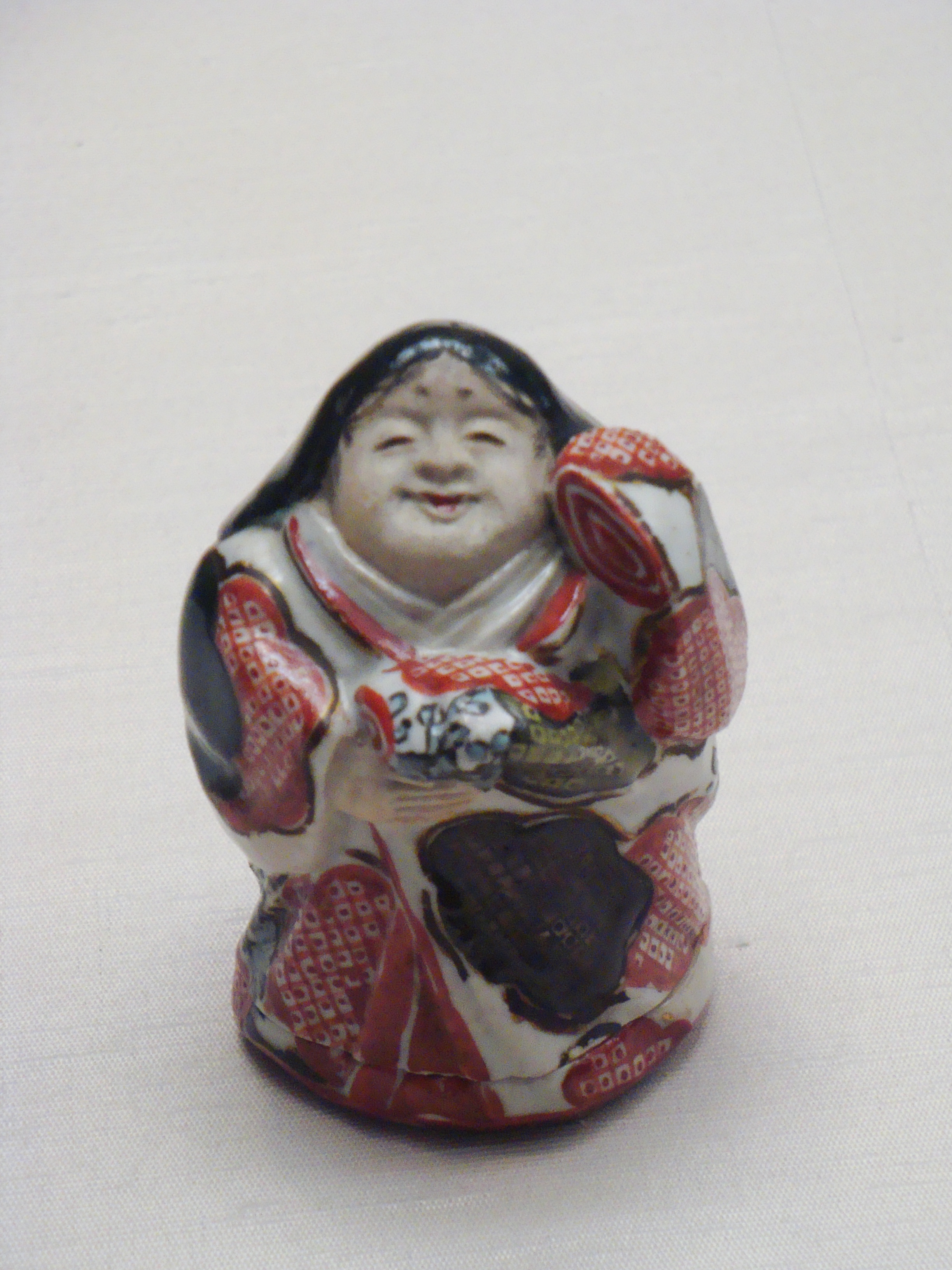 From the Edo period, 19th century A.D. By Ninnami Dobachi (1783-1855). Collection of Tokyo National Museum